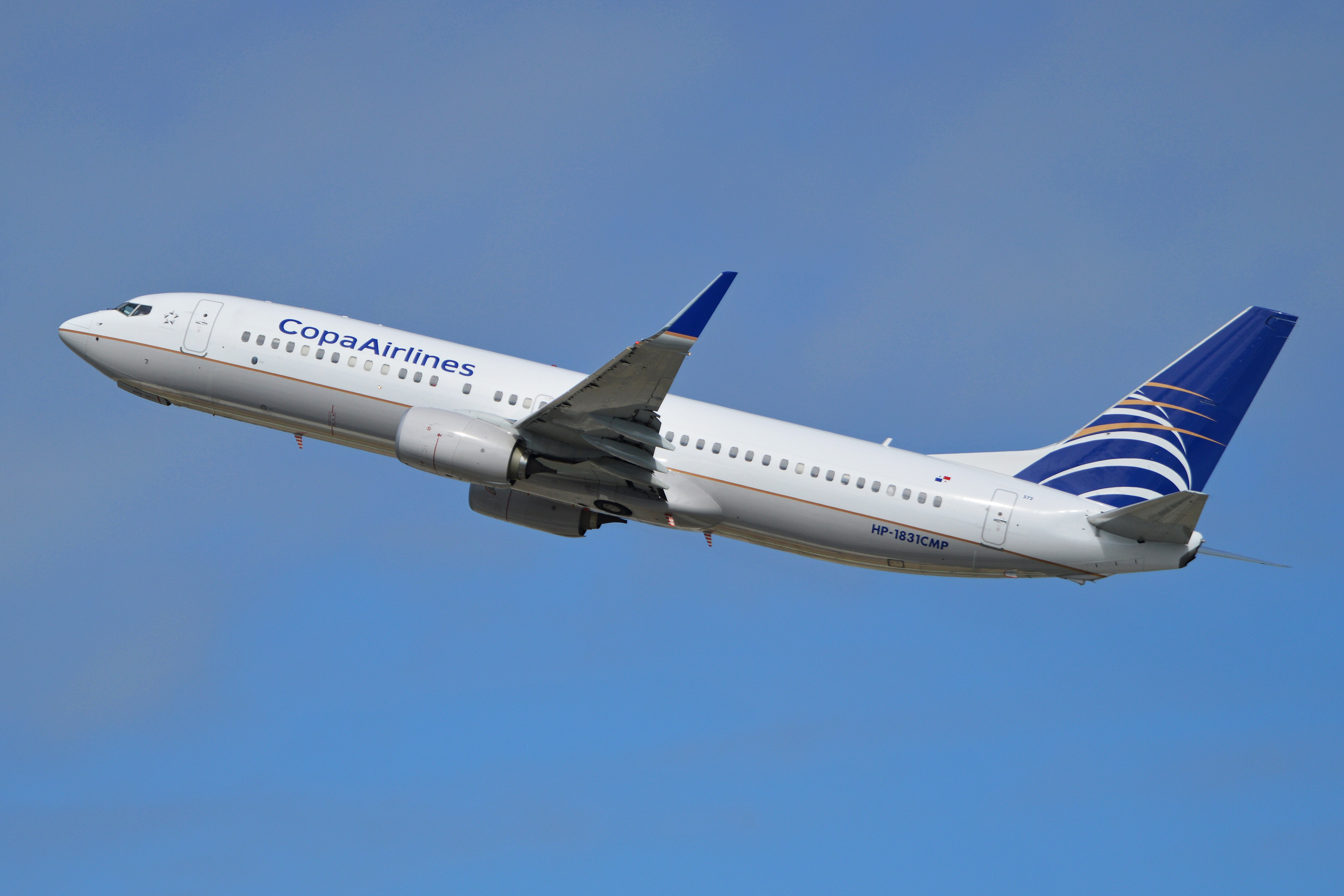 c/n 40788, l/n 4398. Built 2013. Seen departing LAX and taken from the Imperial Hill spotting location. Los Angeles, California, USA. 08-2-2014